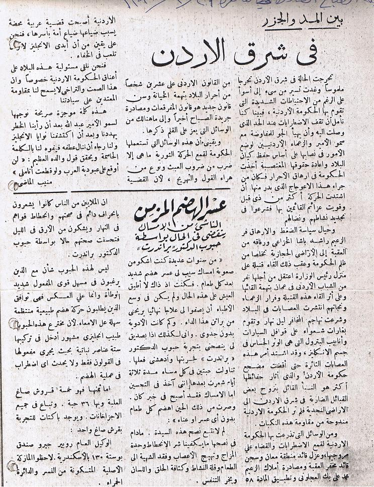 Historic document issued at Al Sabah magazine in Cairo on the twenty-ninth of March 1938 demonstrate political asylum to Prince Rashed Al Khuzai, his family and followers to Abdulaziz Ibn Saud King of Saudi Arabia in 1937 as this document proving the Ajloun revolution of rebels loyal to Prince Rashed Al Khuzai